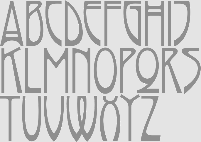 NICK CURTIS RIVANNA N F 2002C